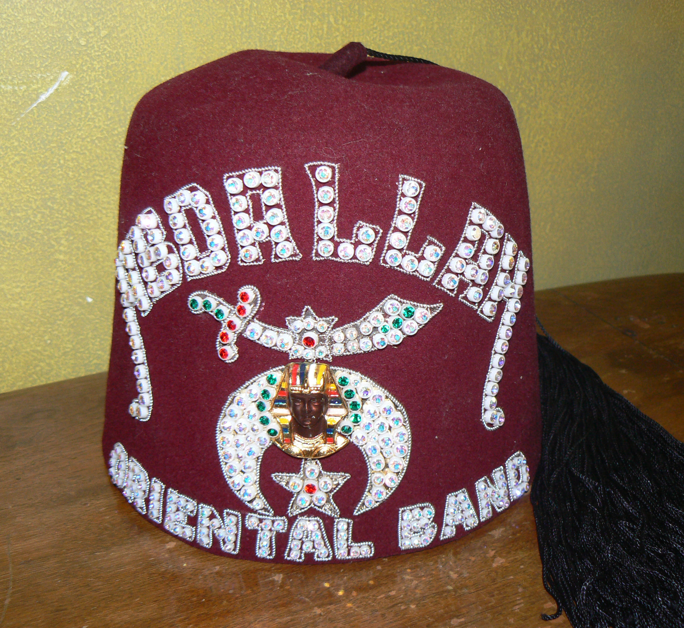 A few that was owned by a member of the Abdullah Shrine Oriental Band.